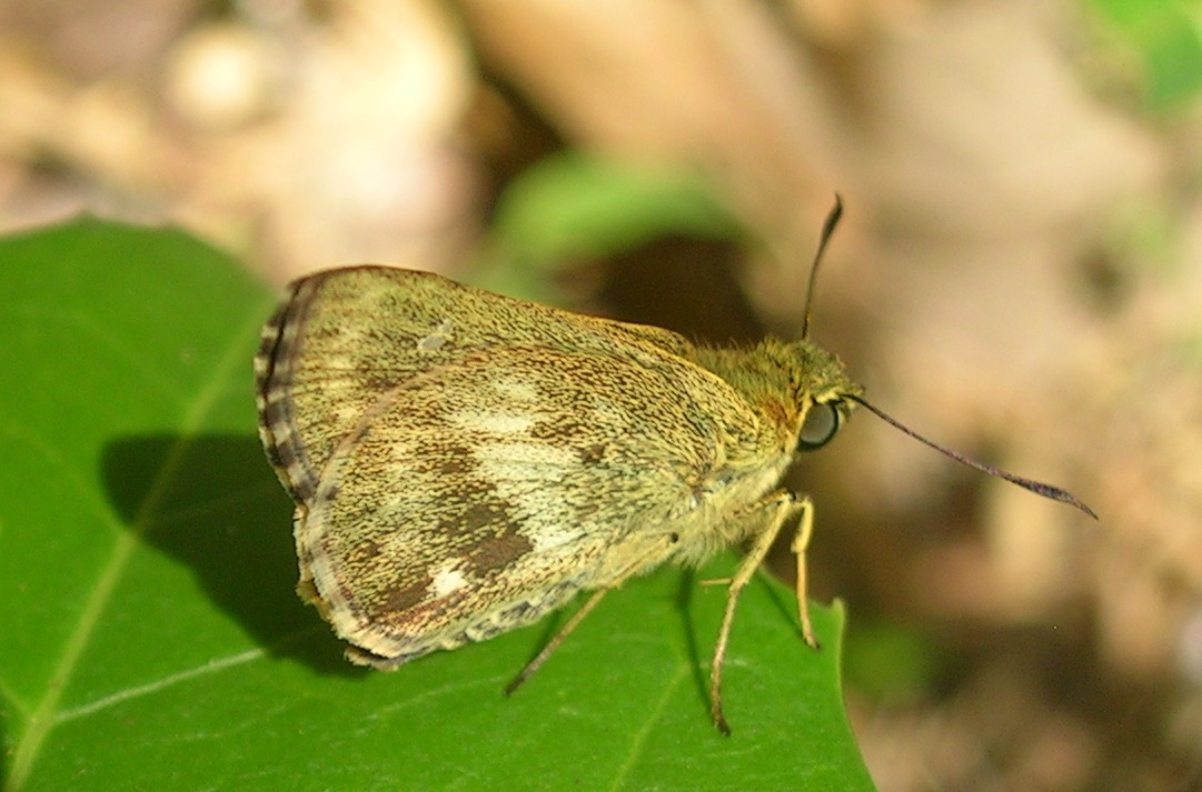 Halpe homolea hindu from the Brahmagiri, Coorg region. (ID by Firos)